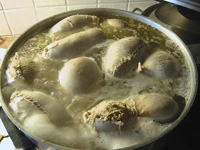 Icelandic sheep liver sausage (Lifrarpylsa), used in the local national food Þorramatur.